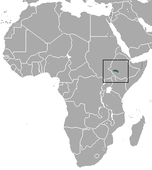 MacMillan's Shrew (Crocidura macmillani) range